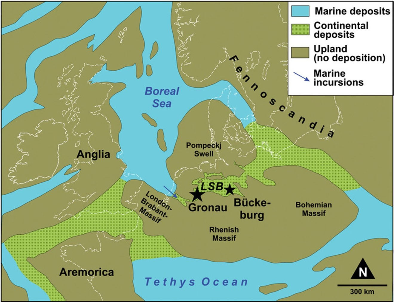 Figure 1: [...] (C) Palaeogeographical map of Central Europe during the Berriasian-Valanginian (after Mutterlose, 1997, modified), incorporating the Lower Saxony Basin (LSB) and the localities of Gronau and Bückeburg.